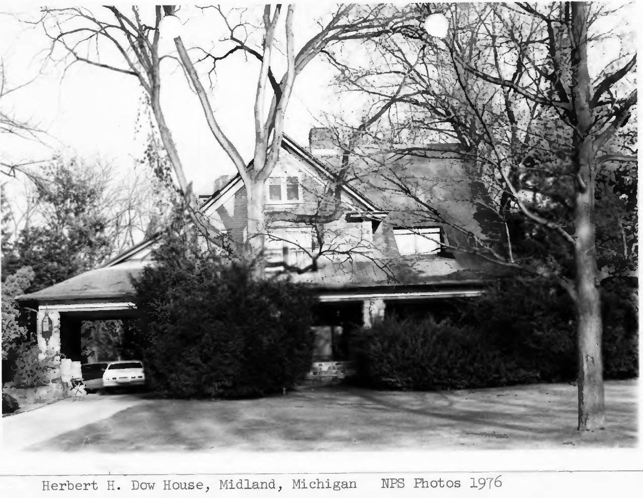 Herbert H Dow House, Midland MI